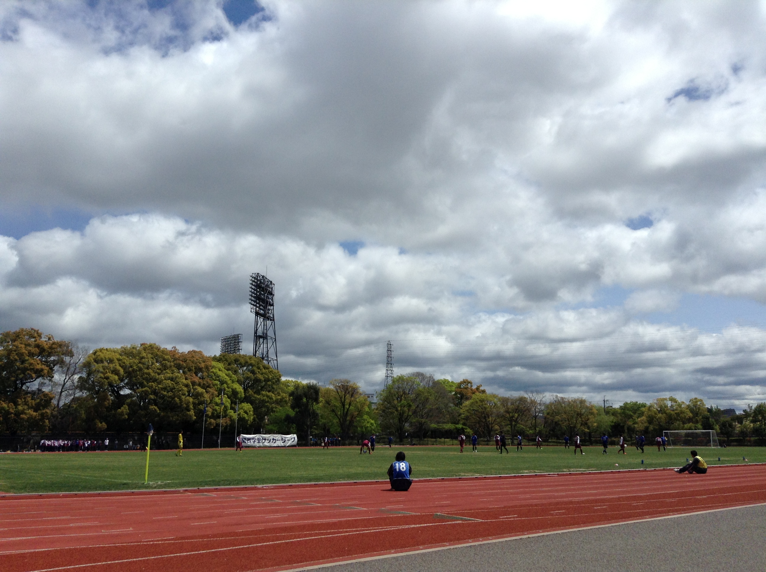 Kansai Student's Soccer League Game